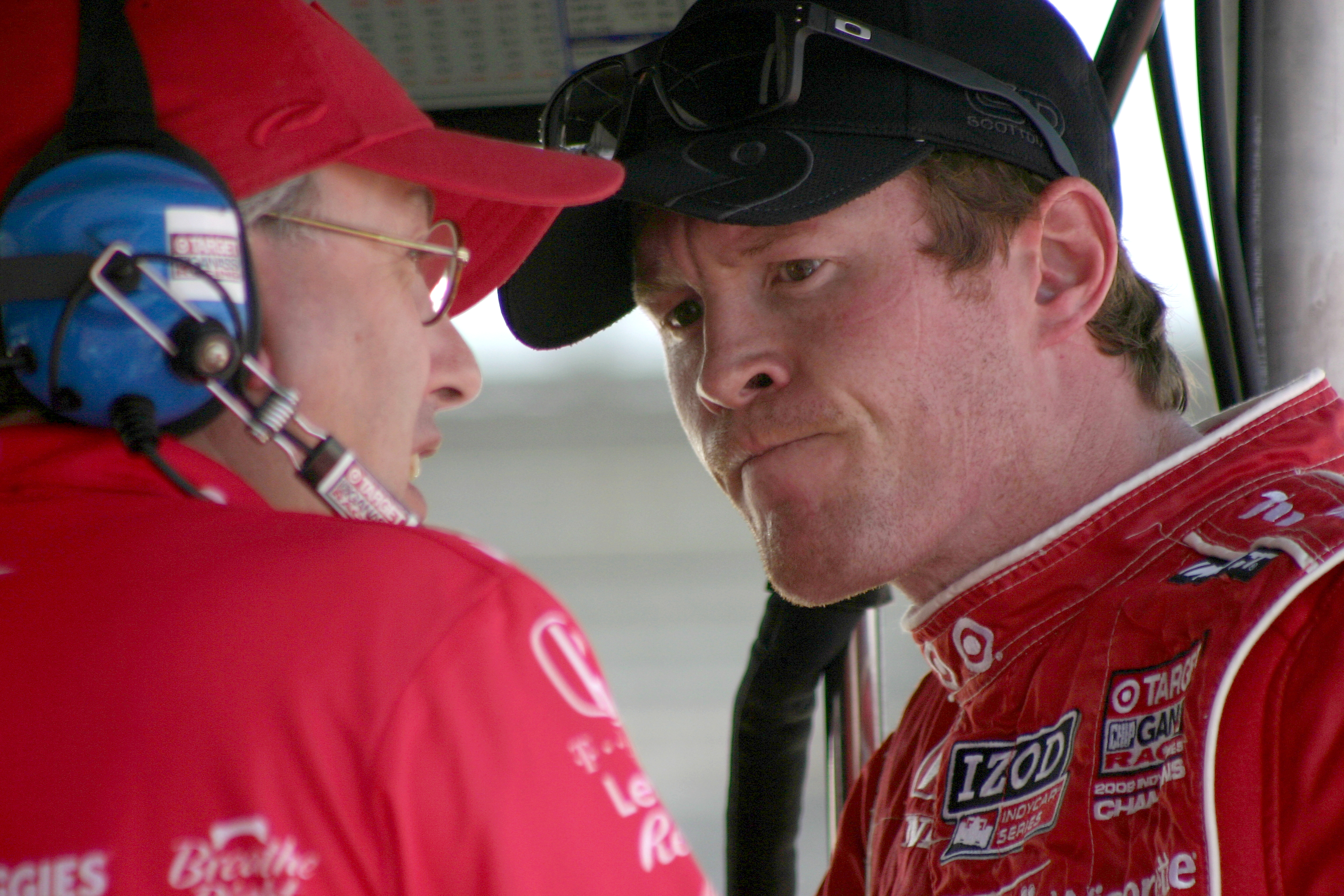 Scott Dixon confers with a member of the Chip Ganassi Racing team in the pits on Carb Day, May 28, 2010, at Indianapolis Motor Speedway in preparation for the 2010 Indianapolis 500